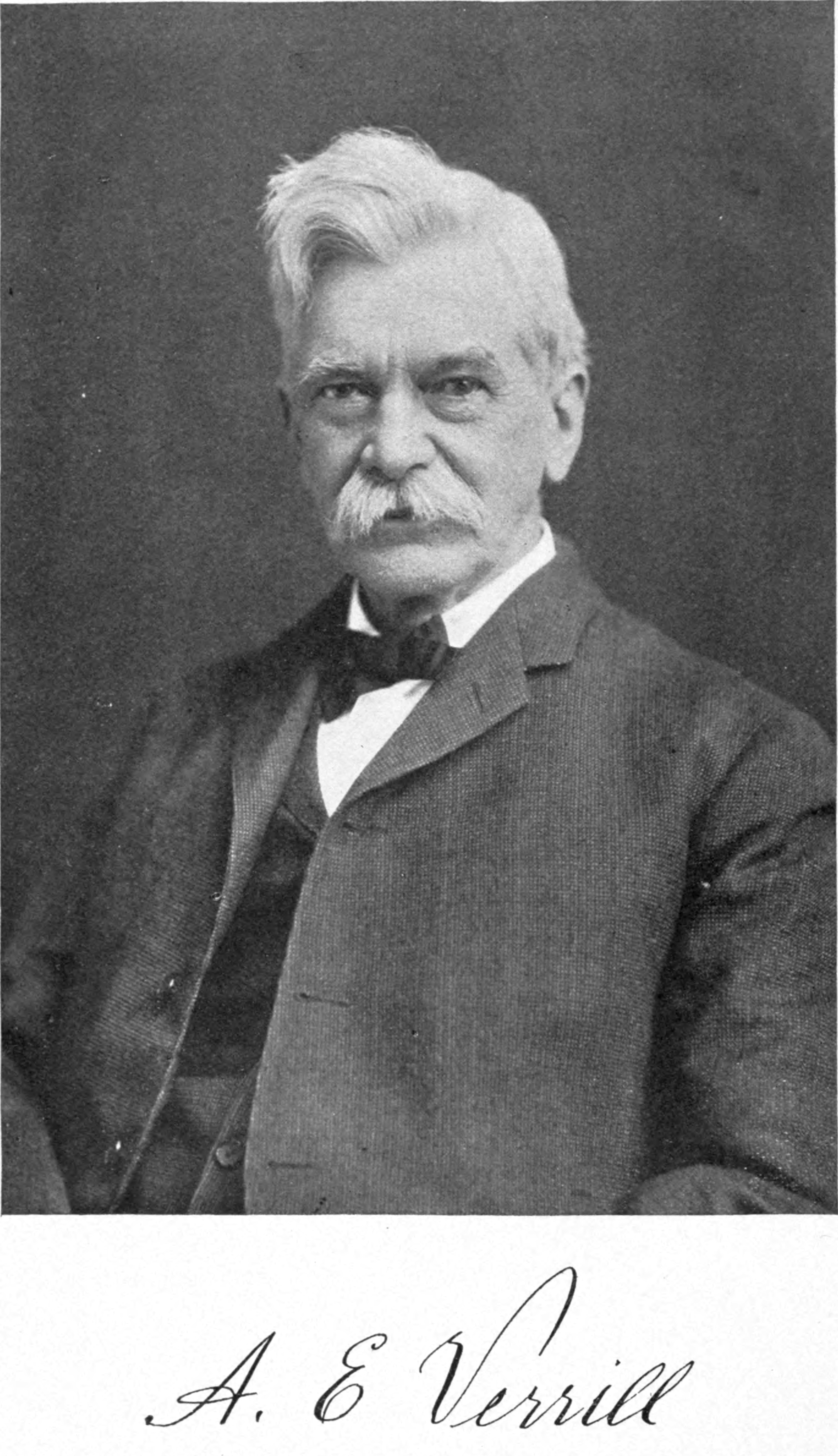 Addison Emery Verrill (1839-1927)